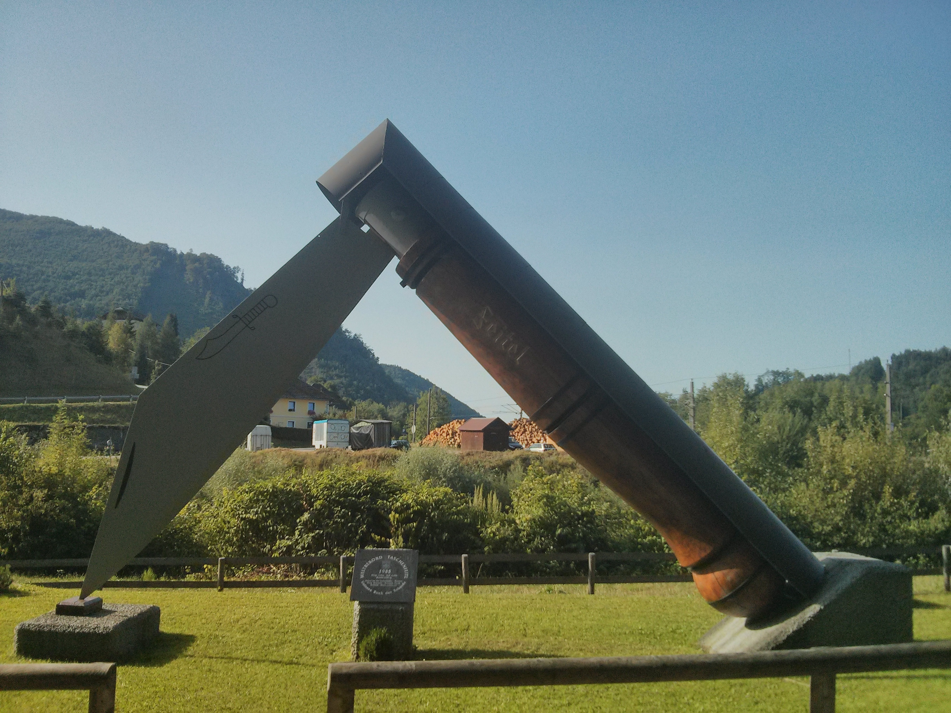 World Record Pocket Knife - Trattenbach, Upper Austria